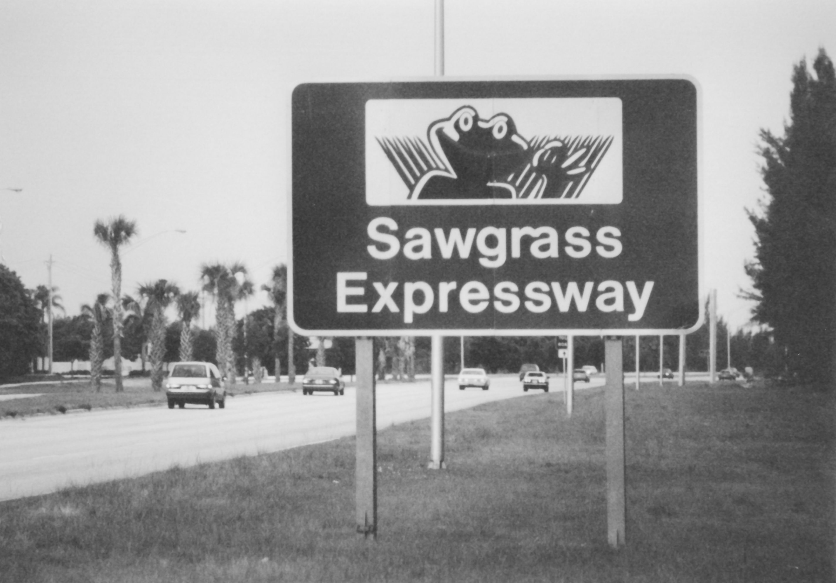 The main Sawgrass Expressway sign with Cecil B. Sawgrass on it, located "westbound" just after Powerline Road, taken in July 1992. This sign is no longer extant, but was likely erected in 1986, when the Sawgrass Expressway was opened to traffic. Photo taken with a Canon AE-1 camera, using a 55mm FD lens, and Kodak Tri-X film.